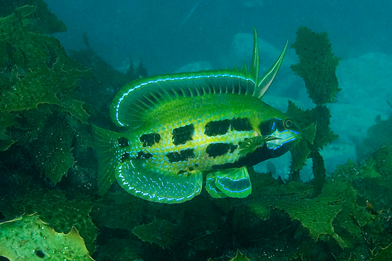 A male Rainbow Cale, Odax acroptilus.